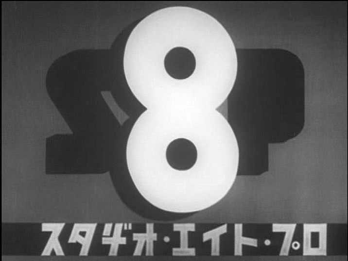 Studio Eight Production's logo in Wakare-gumo (1951) directed by Heinosuke Gosho